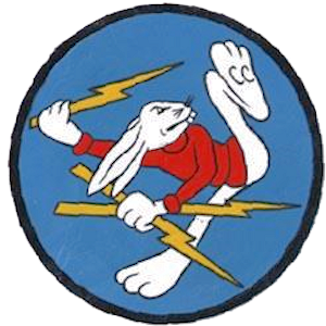 Emblem of the 383d Fighter Squadron (World War II)